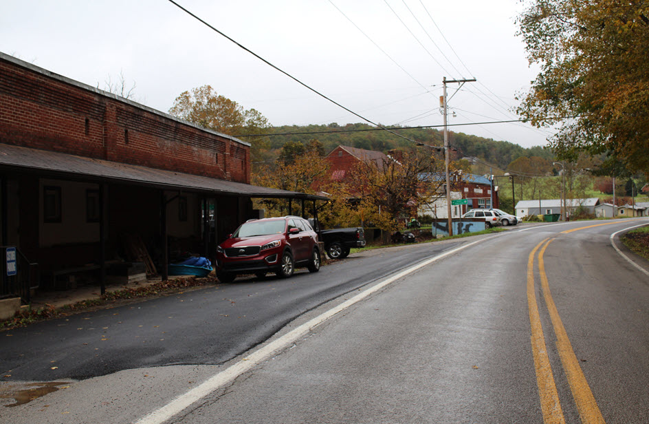 A picture of Heaters, West Virginia.